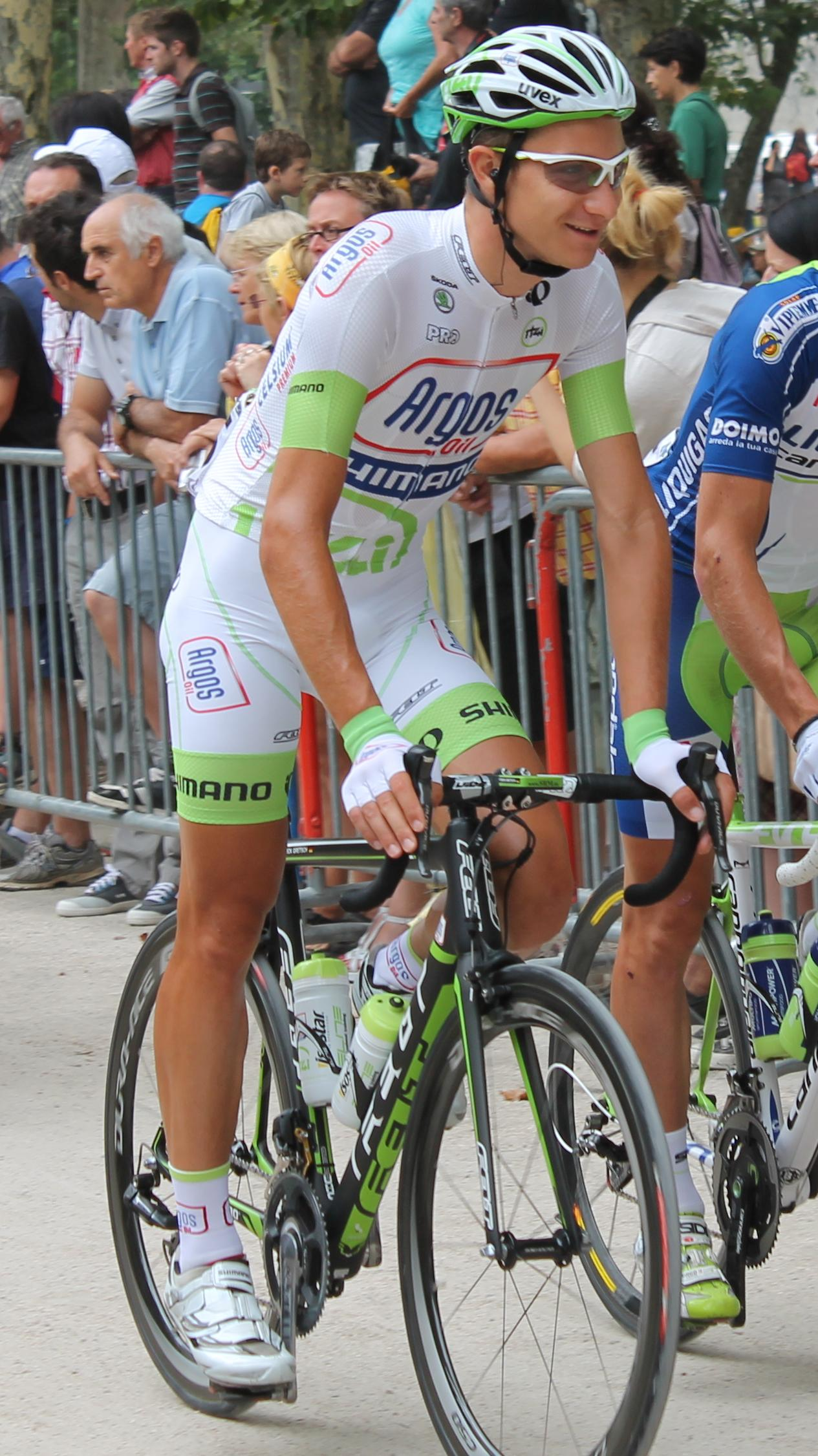 Patrick Gretsch (Argos - Shimano) at the start of stage 18 of the 2012 Tour de France in Blagnac (Haute-Garonne).